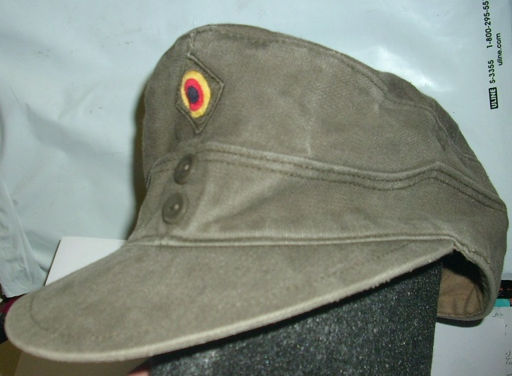 Bundeswehr Feldmütze from the 80s